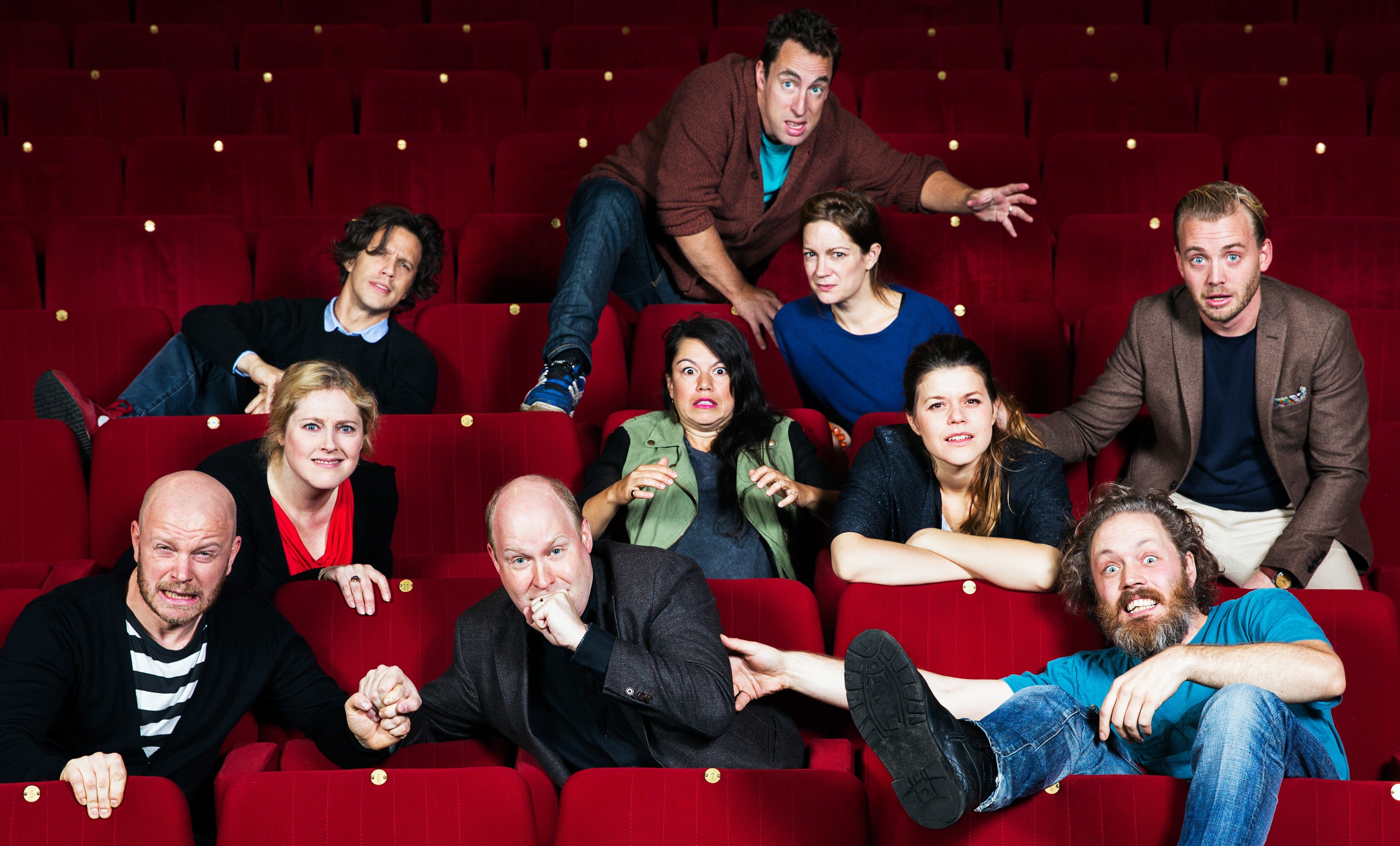 Swedish comedy group Grotesco